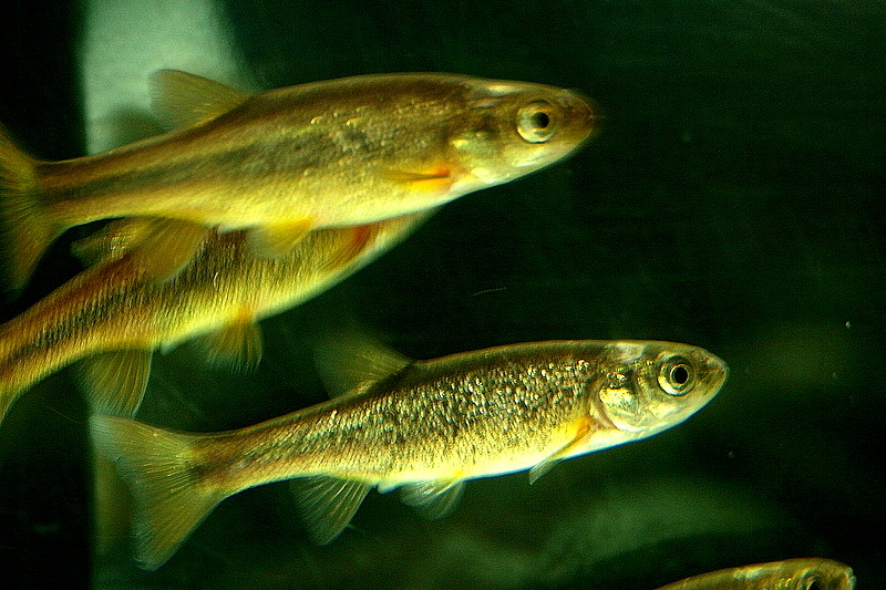 Bigeye fatminnow, Sakhalin lake minnow Phoxinus percnurus sachalinensis (Berg, 1872)